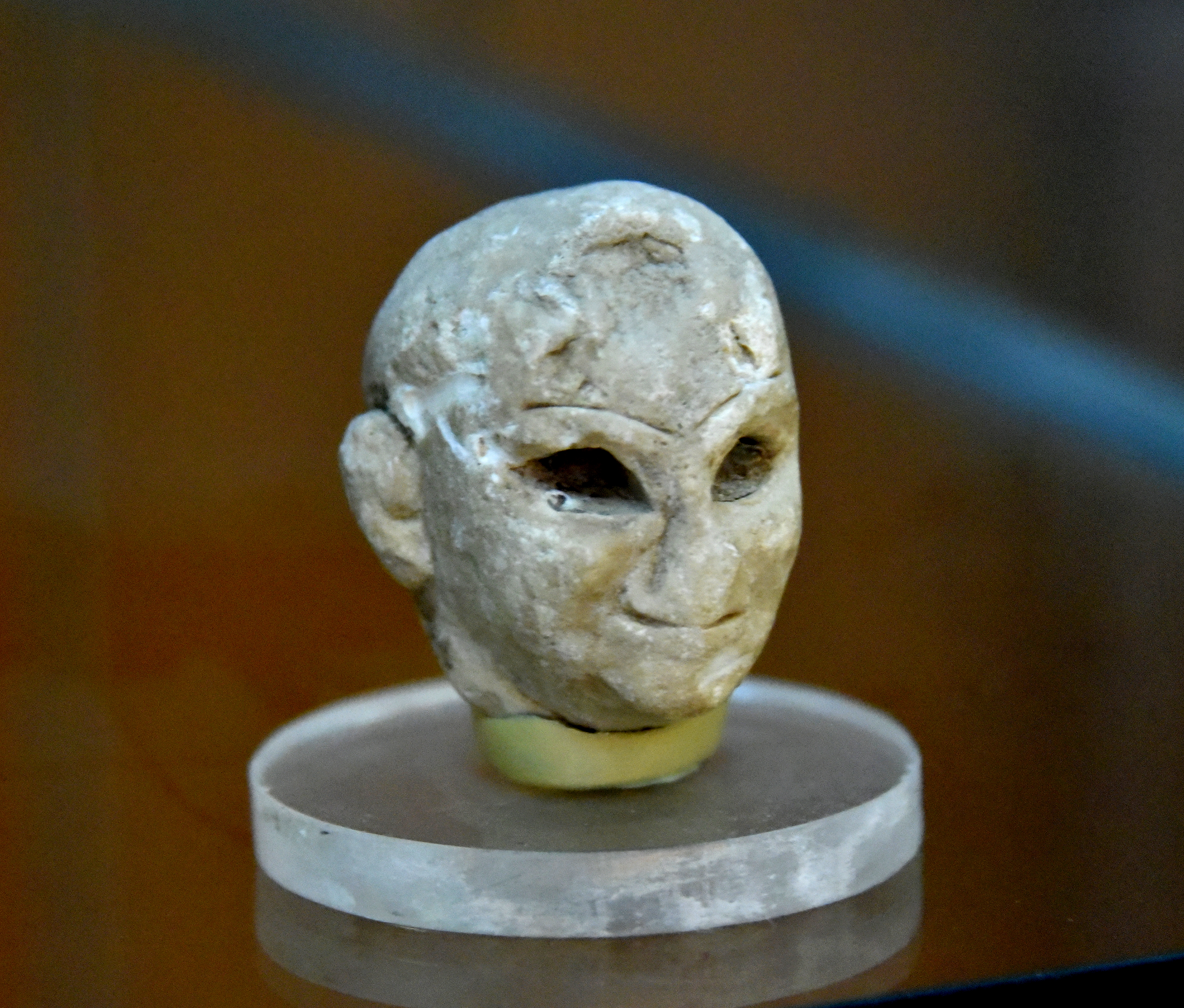 Limestone male head of a statue from From the Single-Shrine at the Temple of Abu, Tell Asmar (ancient Eshnunna), in modern-day Dyala, Iraq. Excavated by the Oriental Institute of the University of Chicago in 1933 CE. Early Dynastic III, c. 2400 BCE. The Sulaymaniyah Museum, Iraqi Kurdistan. The head is on the Oriental Institute's list of Lost Treasures from Iraq after April 2003. However, it has been housed at the Sulaymaniyah Museum since October 1961, as a permanent loan from the Iraqi Museum.